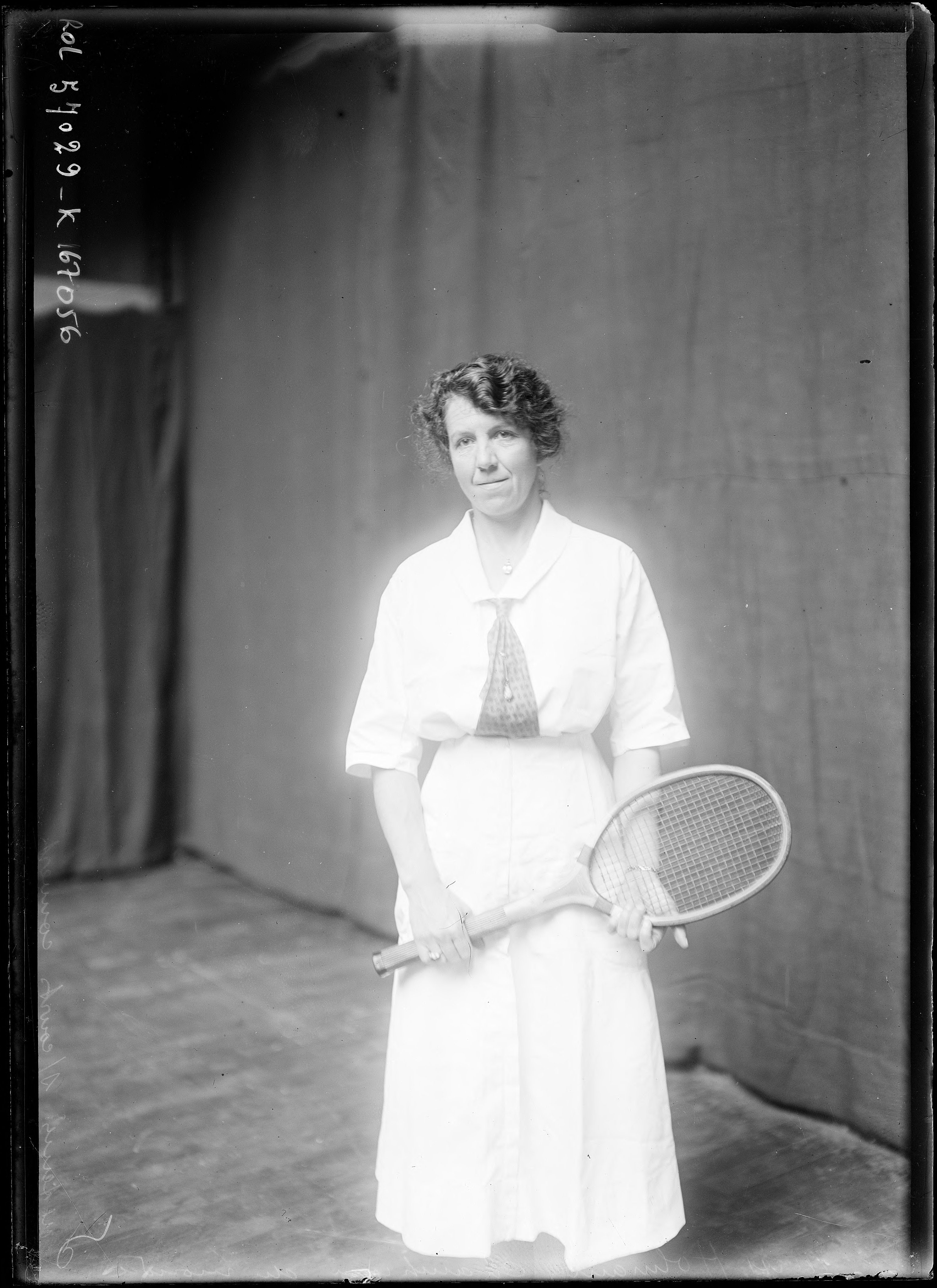 British tennis player Dorothy Holman